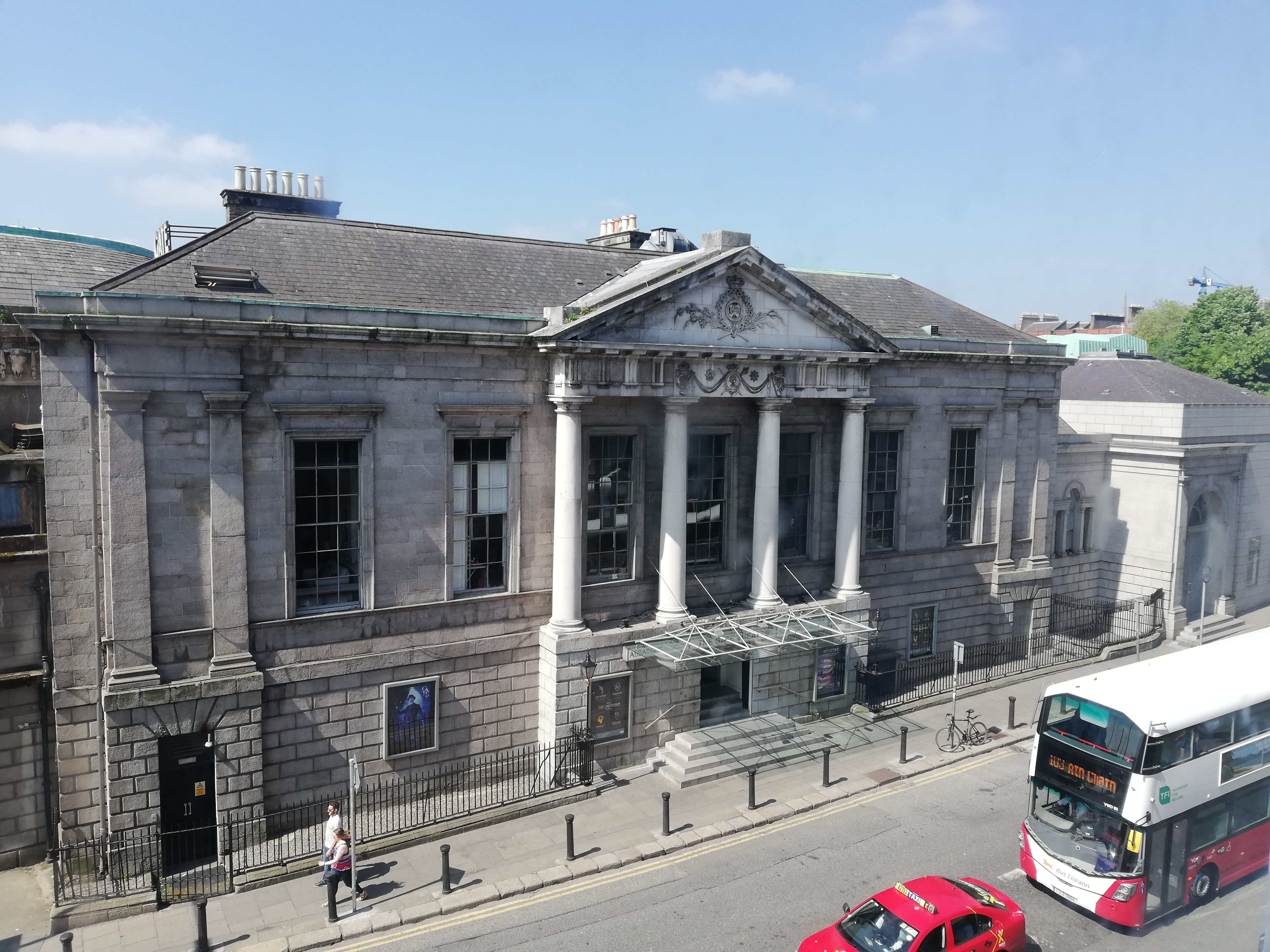 Image of Gate Theatre Dublin